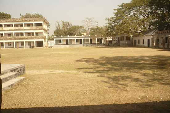 Playground,Basail Govindo Govt. High School